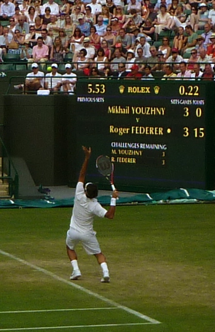 Wimbledon No 1 Court - 27 June 2011